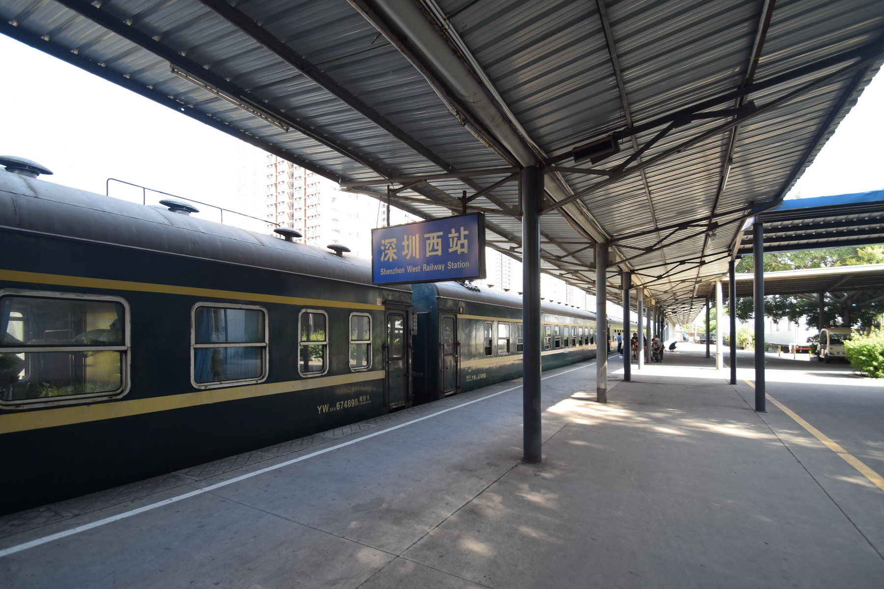 Platform 1, Shenzhen Xi (West) Railway Station